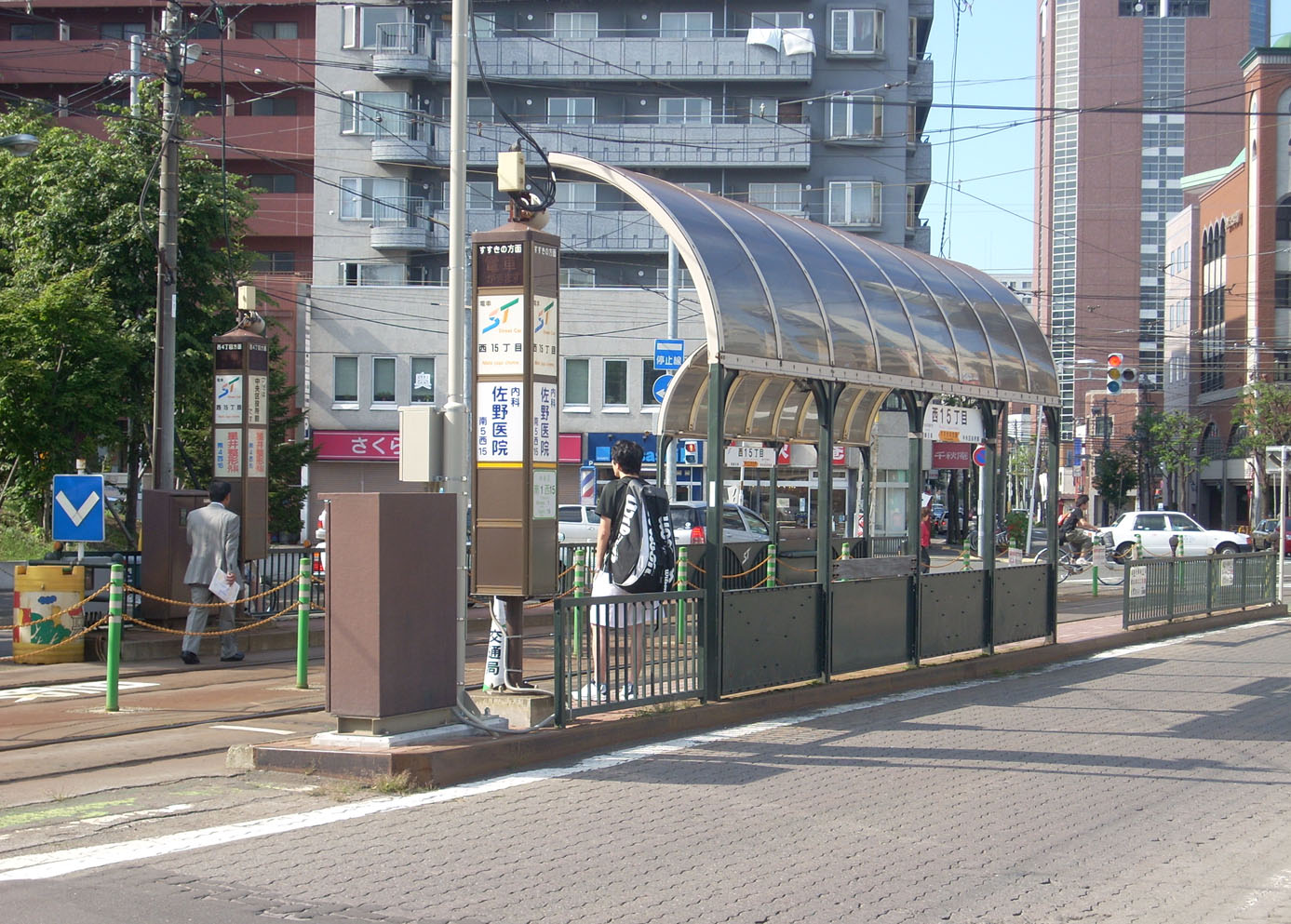 Sapporo street car Nishi jugochome station, Chuo-ku, Sapporo, Hokkaido, Japan